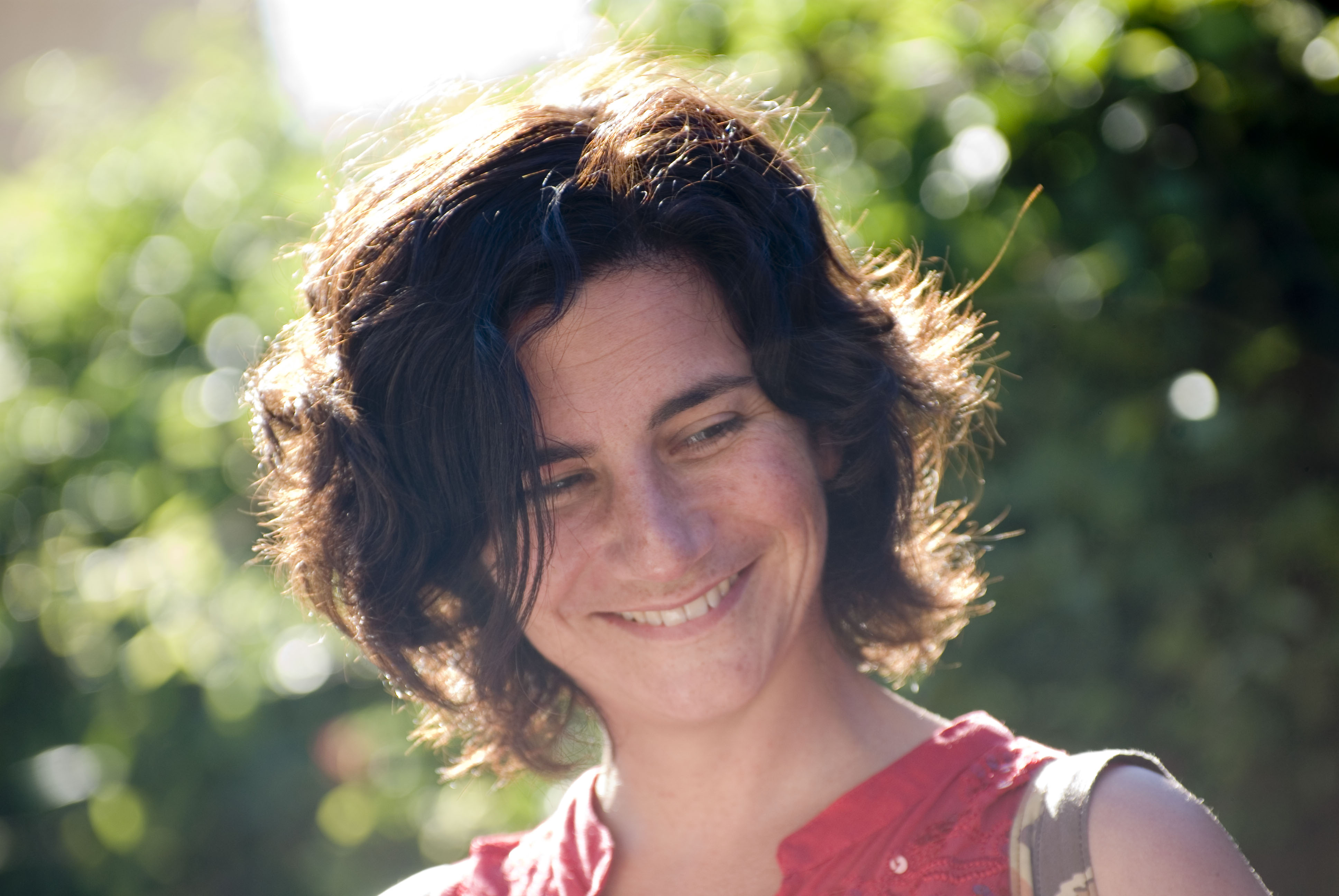 Hanna Zetterberg Struwe på StoppaFRAlagen.nu:s mingel i Almedalen 2008